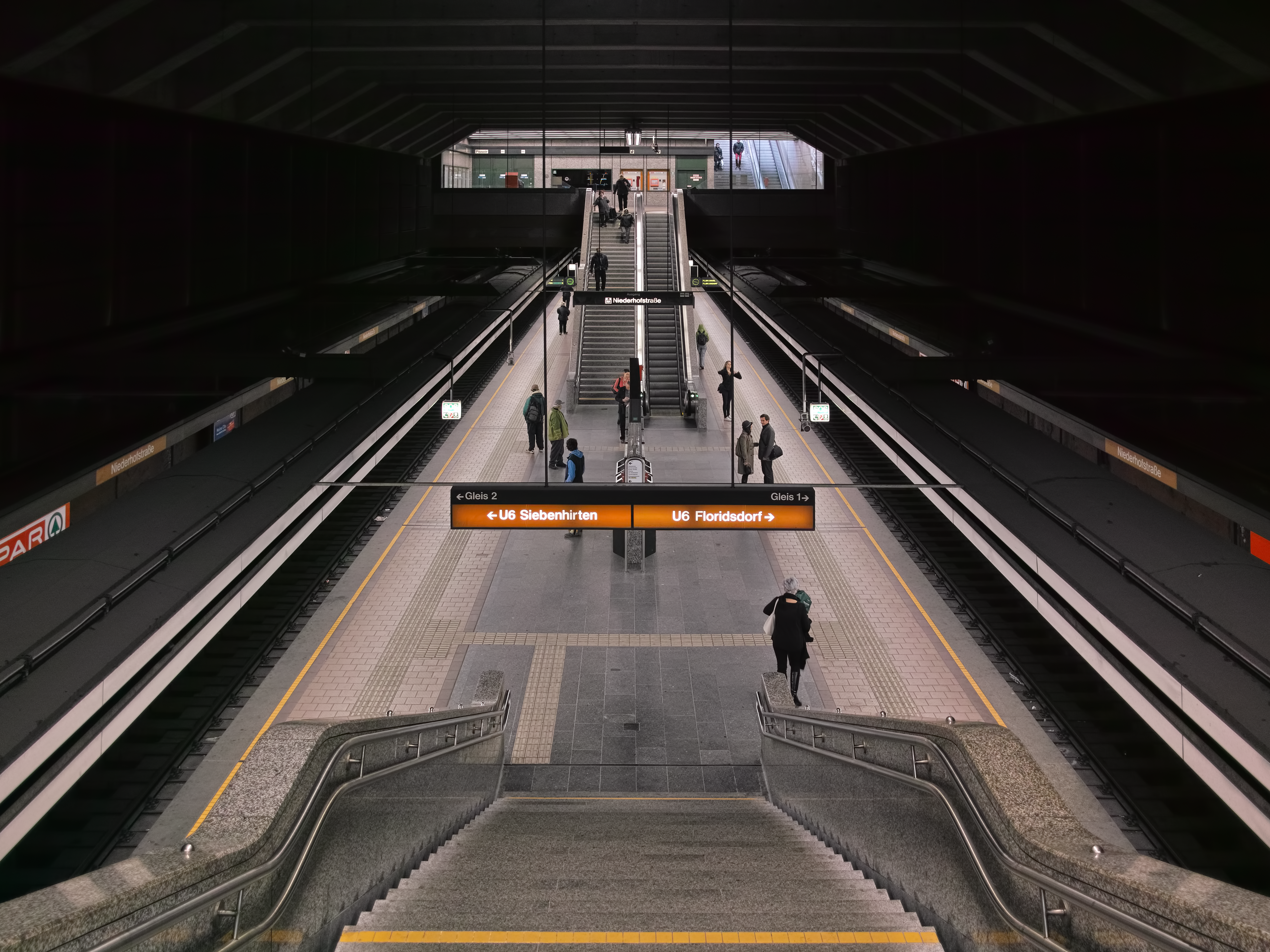 The Niederhofstrasse station platform of the Vienna U-Bahn from the south on May 27, 2013.